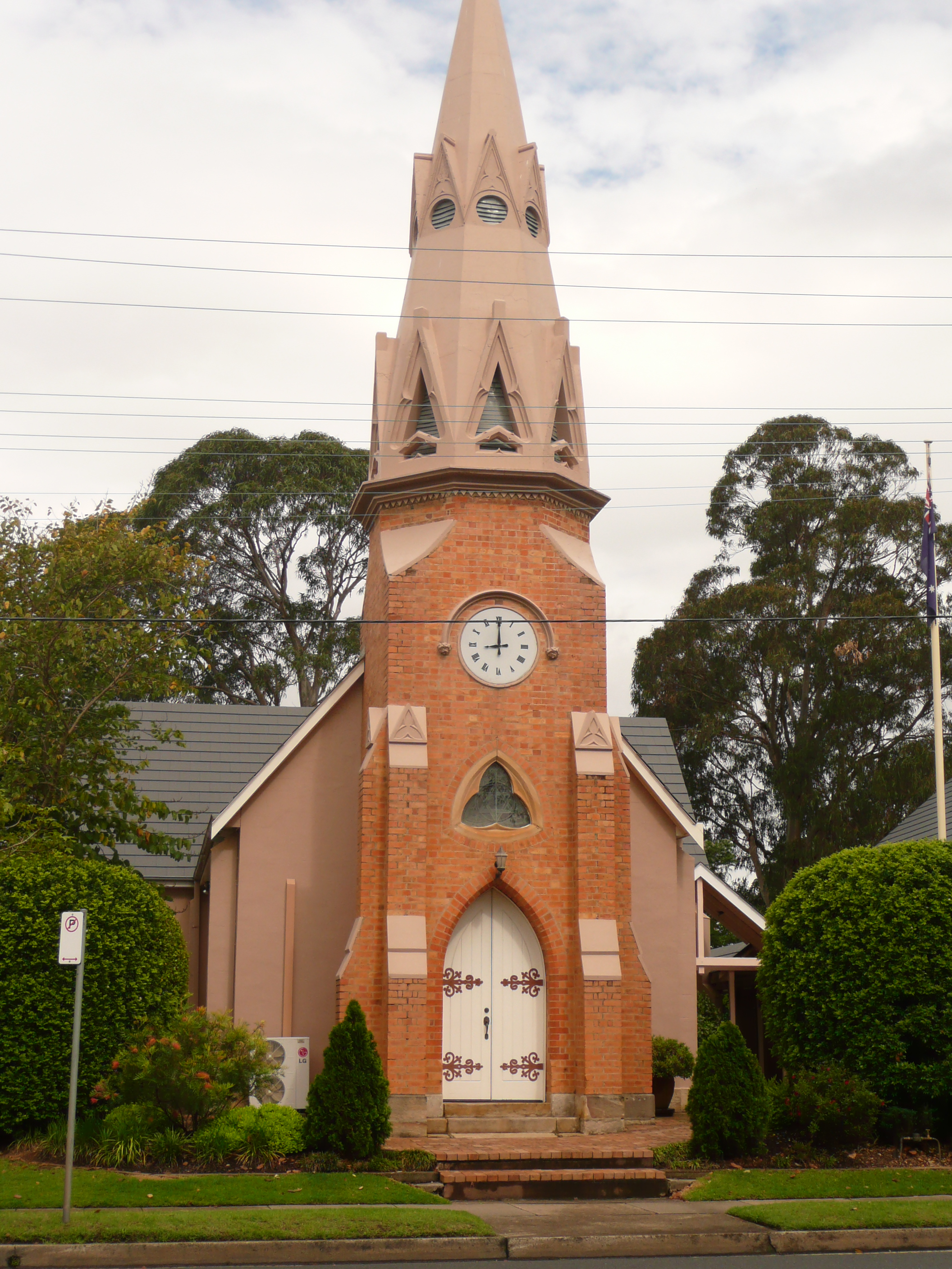 former church, sydney